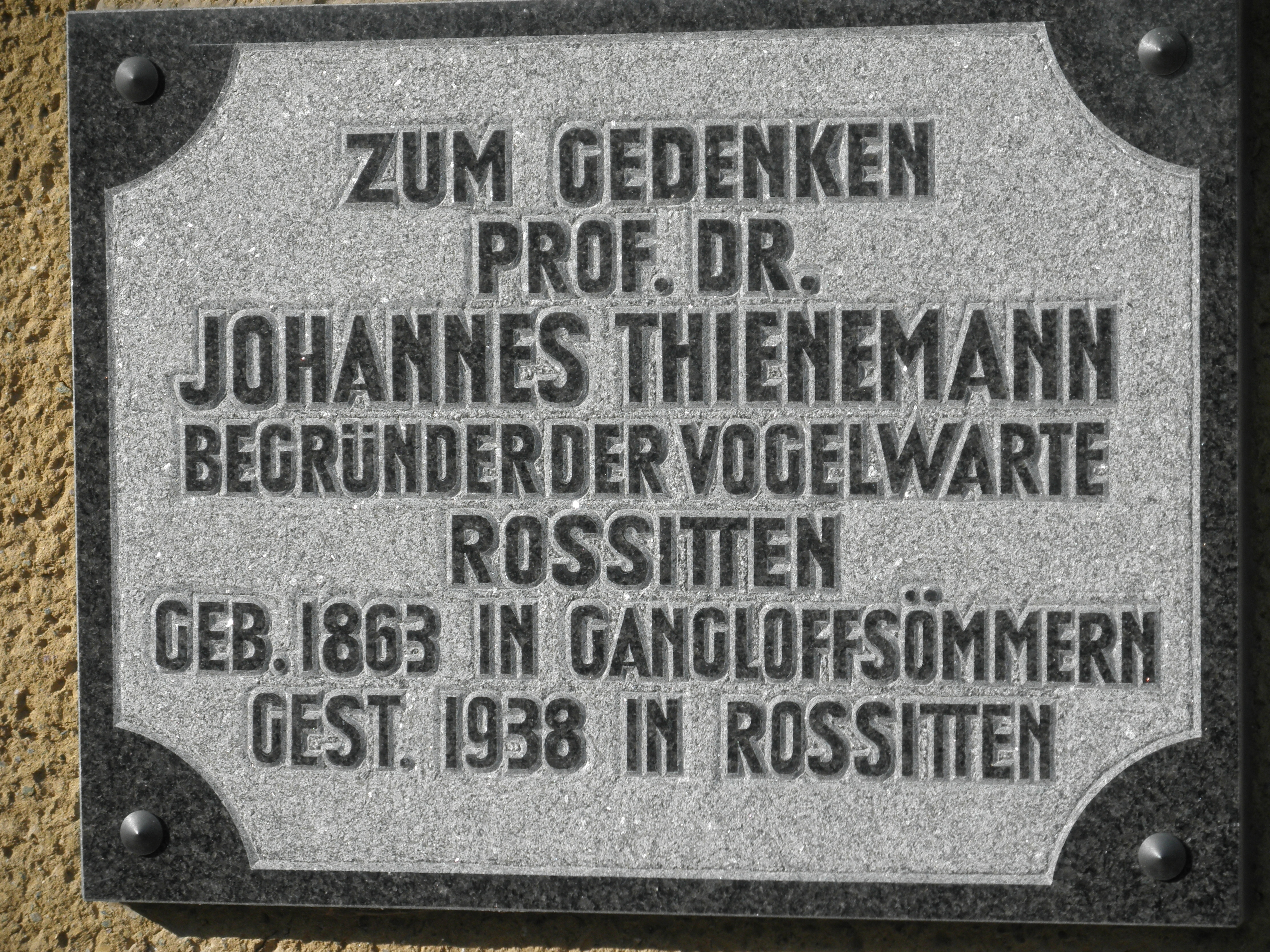 Memorial Table in Gangloffsömmern for Johannes Thienemann